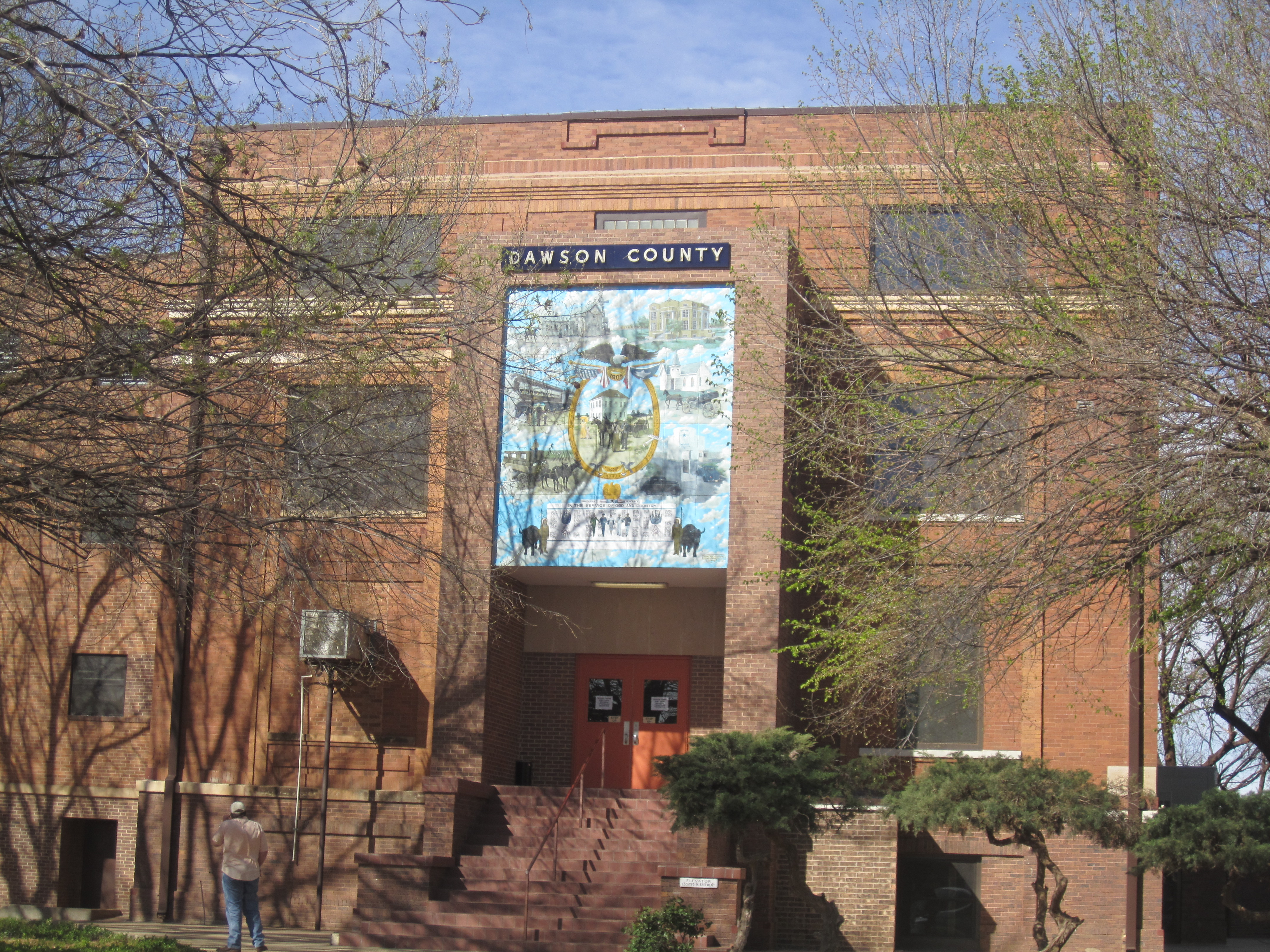 I took photo in Lamesa, TX, with Canon camera.